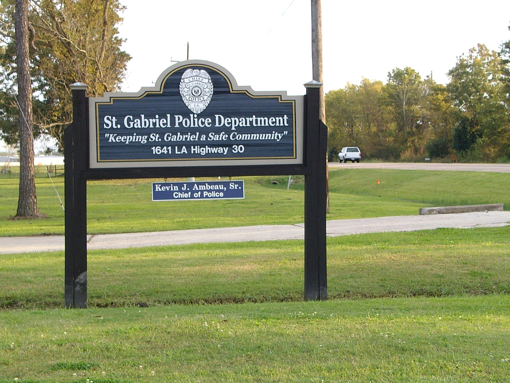 St. Gabriel Police Dept. St. Gabriel, Louisiana